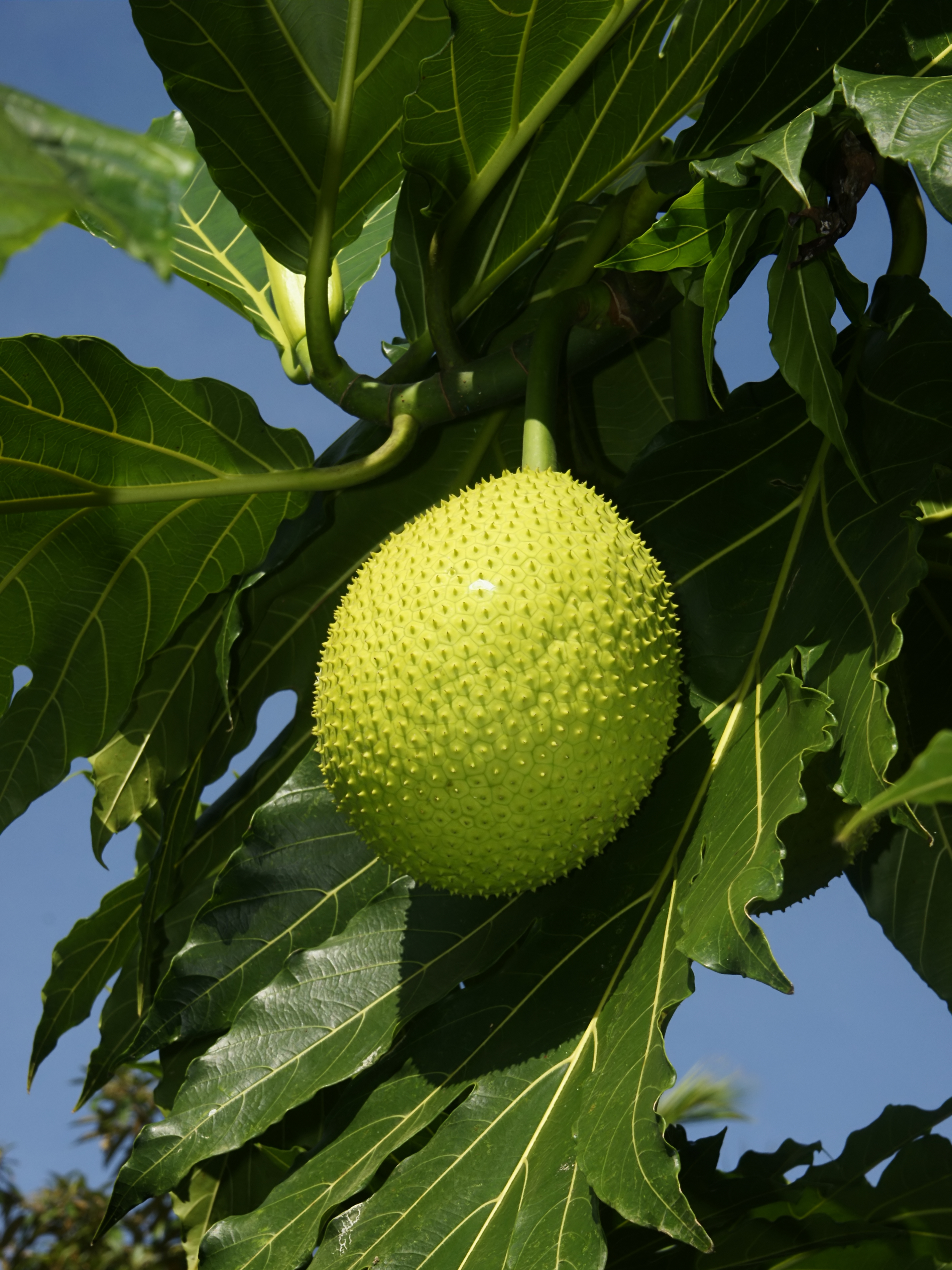 Breadfruit at Tortuguero, Costa Rica